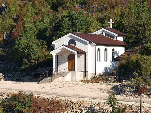 Church in village Donja Britvica,Bosnia and Herzegovina